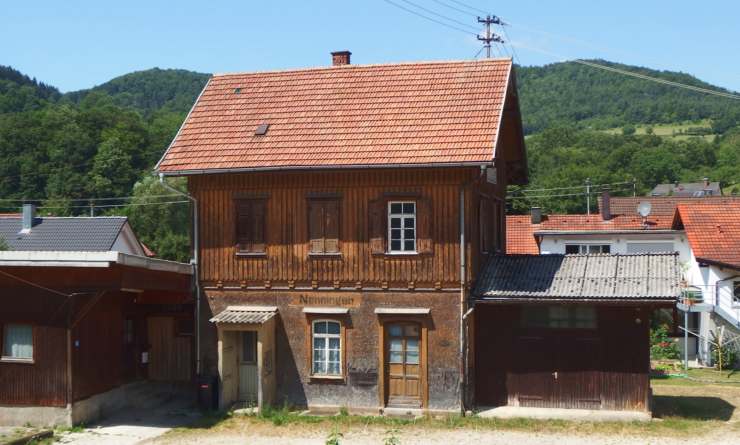 Nenningen, Germany, building of former train station